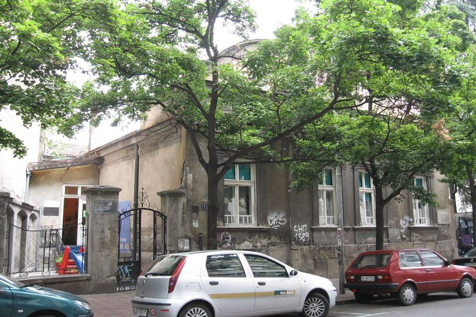 House of Laza Lazarevic in Belgrade.